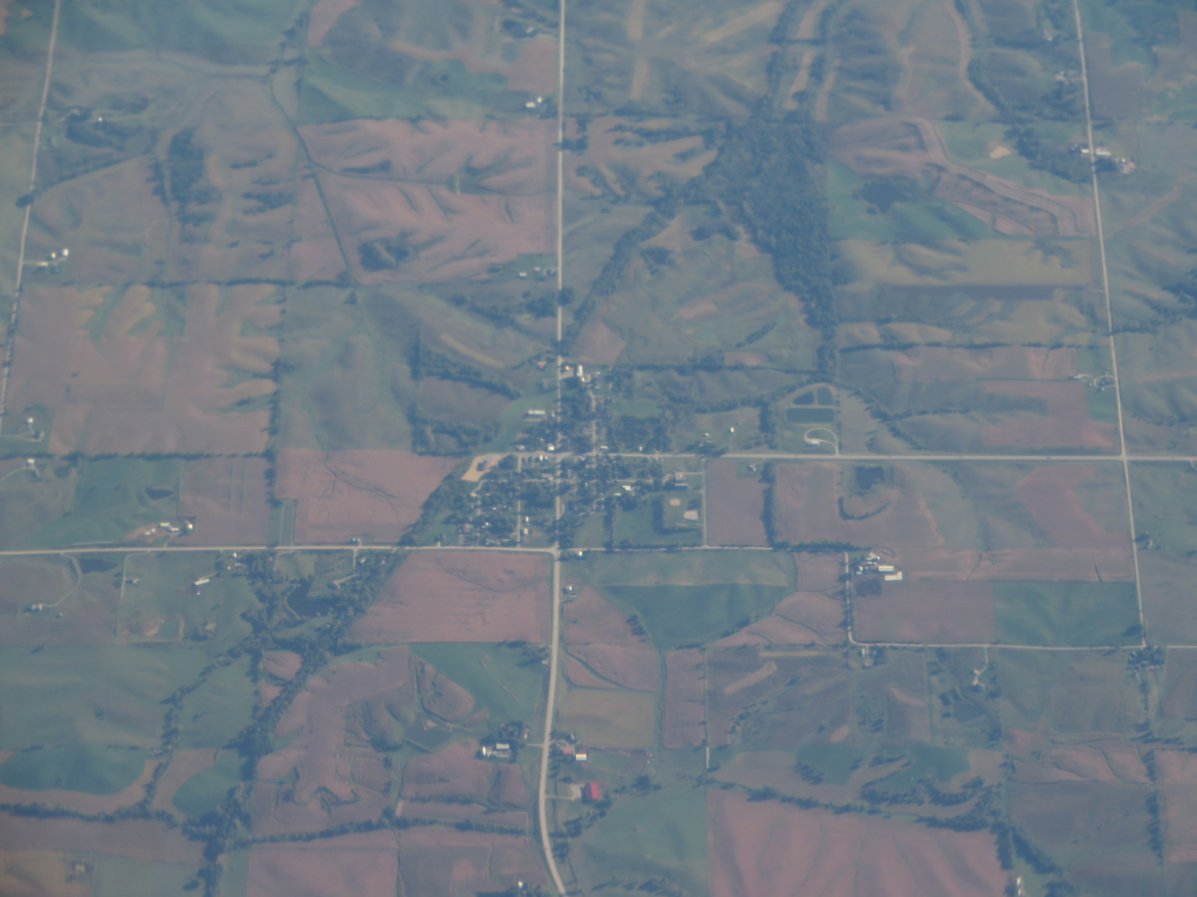 Parnell is a city in Iowa County, Iowa, United States. The population was 193 at the 2010 census, and is estimated to be 207 as of the 2014 US Census Bureau estimate, making it the fastest growing town in Iowa. Parnell, in Fillmore Township, Iowa County, Iowa, was named after Charles Stewart Parnell, a noble Irish statesman who had come to the American people to plead the cause of Ireland's land-impoverished peasants. The Milwaukee Railroad helped to create Parnell. In 1884, the people of the little Irish town of Lytle City moved residences, stores, buildings, and families three miles west to where the railroad was beginning.